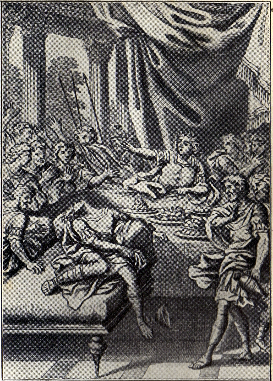 The poisoning of Britannicus, by François Chauveau